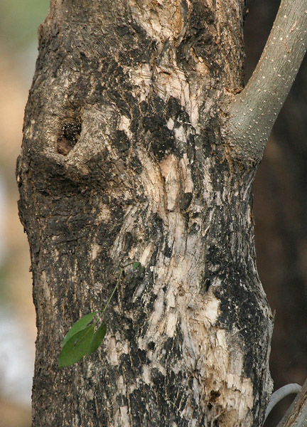 Quickstick Gliricidia sepium in Kolkata, West Bengal, India.